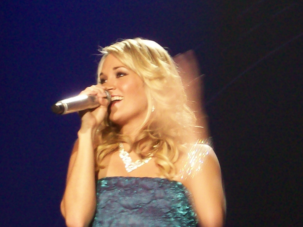 Carrie Underwood in concert May 2007